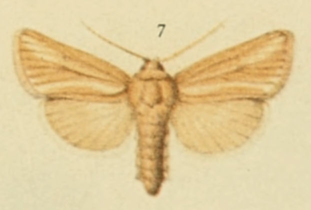 Plate 146. Fig. 7. DescriptionBinomial in textBrighton Wainscot.Oria musculosa